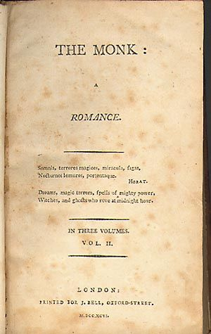 First edition of the Monk by Matthew Lewis - Title page.